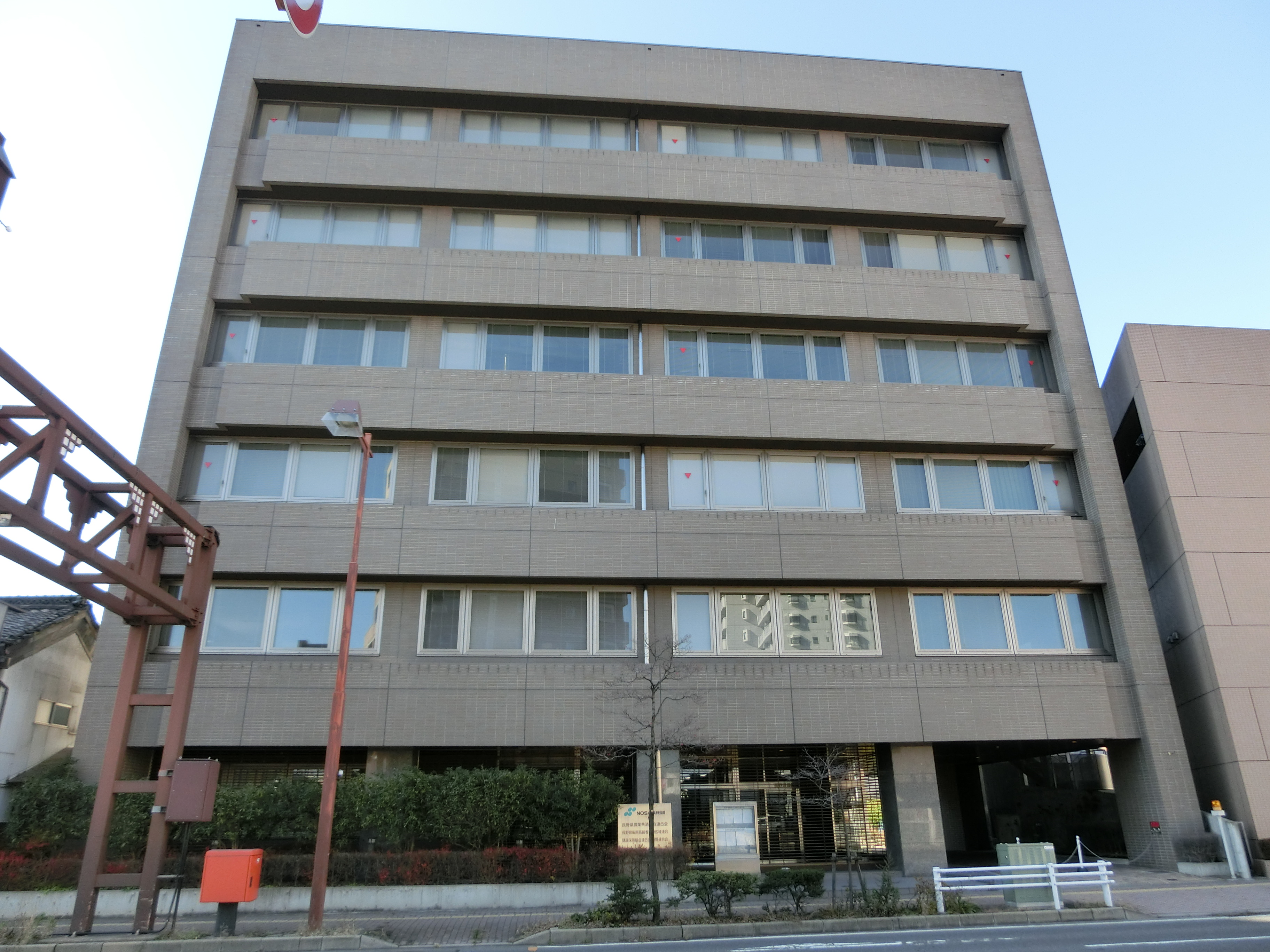 NOSAI Nagano building